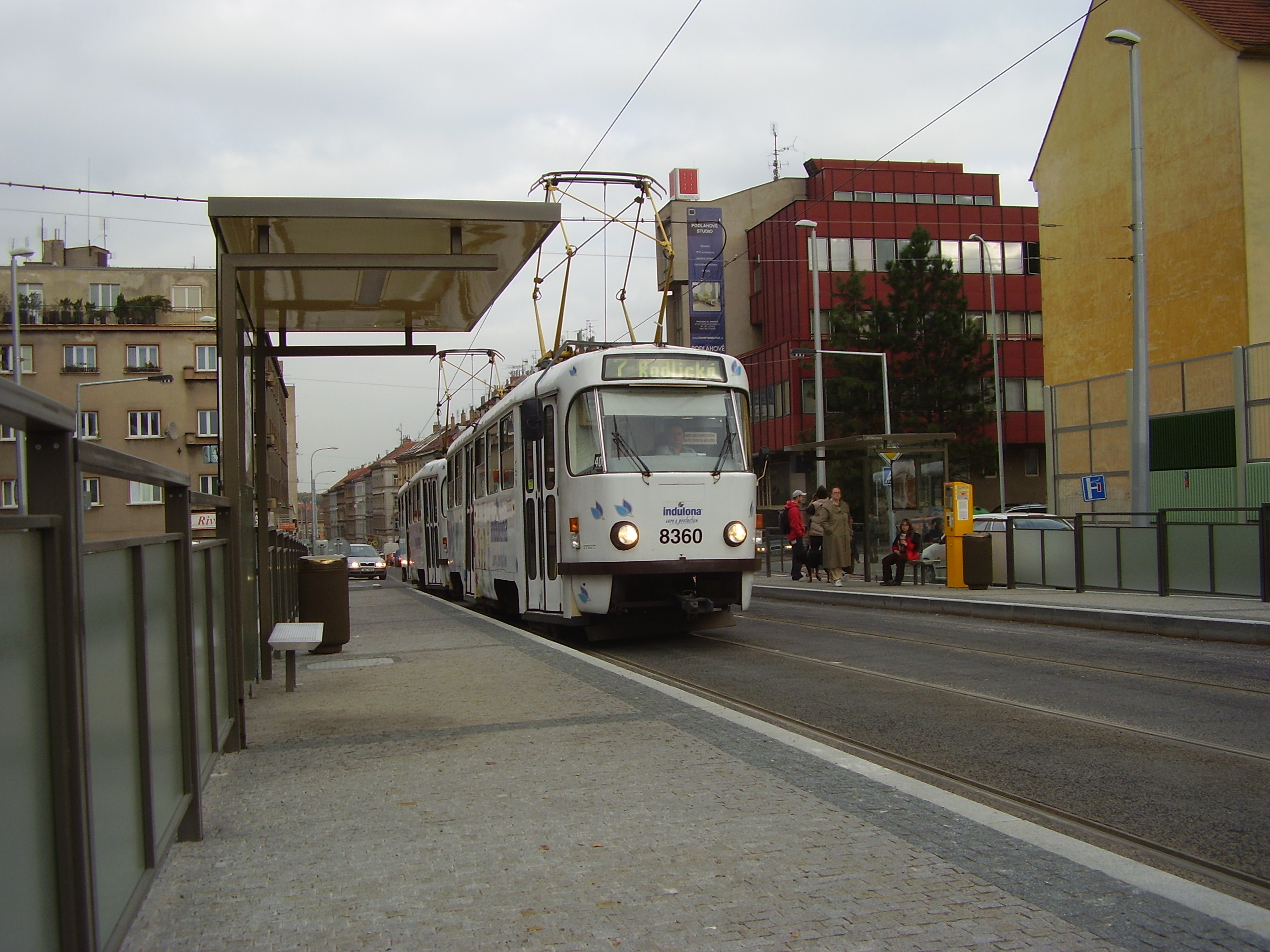 Tram track Radlice - Laurová train stop with tram Tatra T3